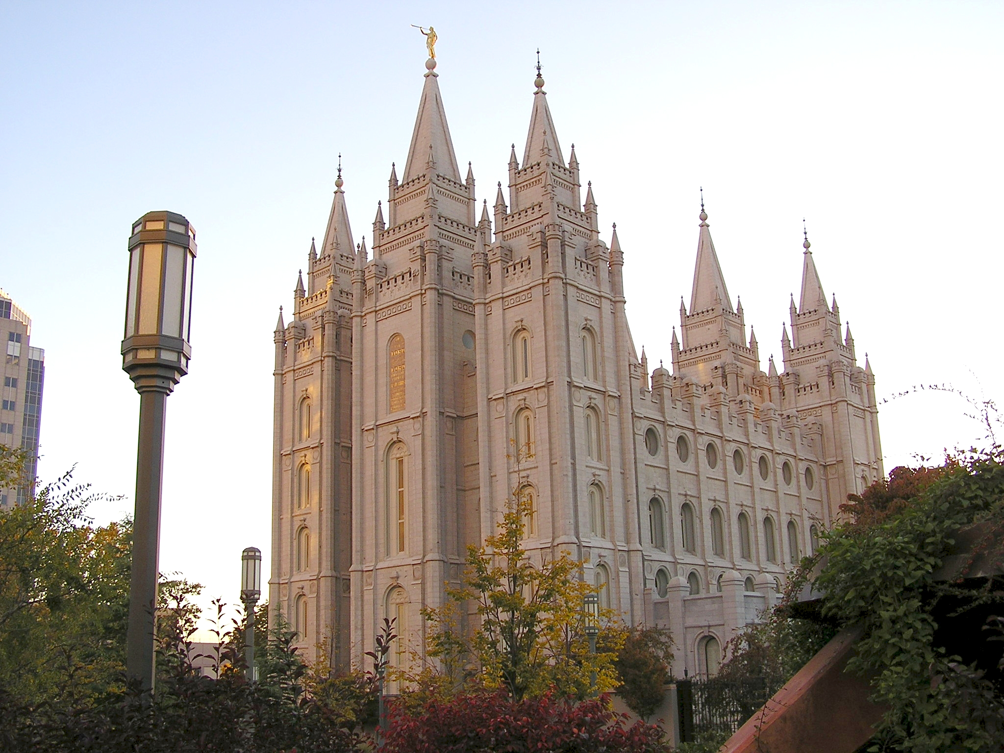 The Salt Lake Temple of The Church of Jesus Christ of Latter-day Saints.